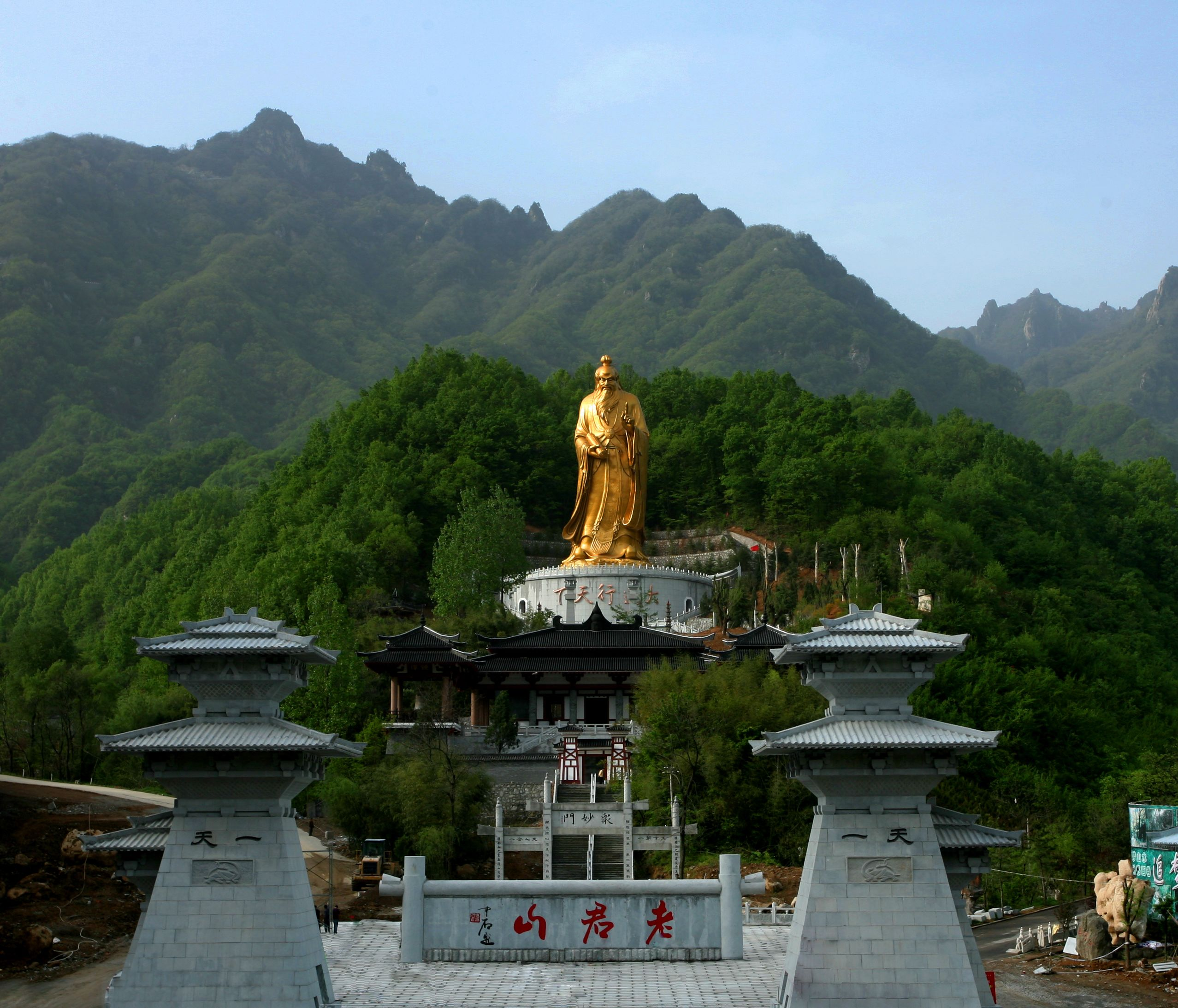 Laojun Montain